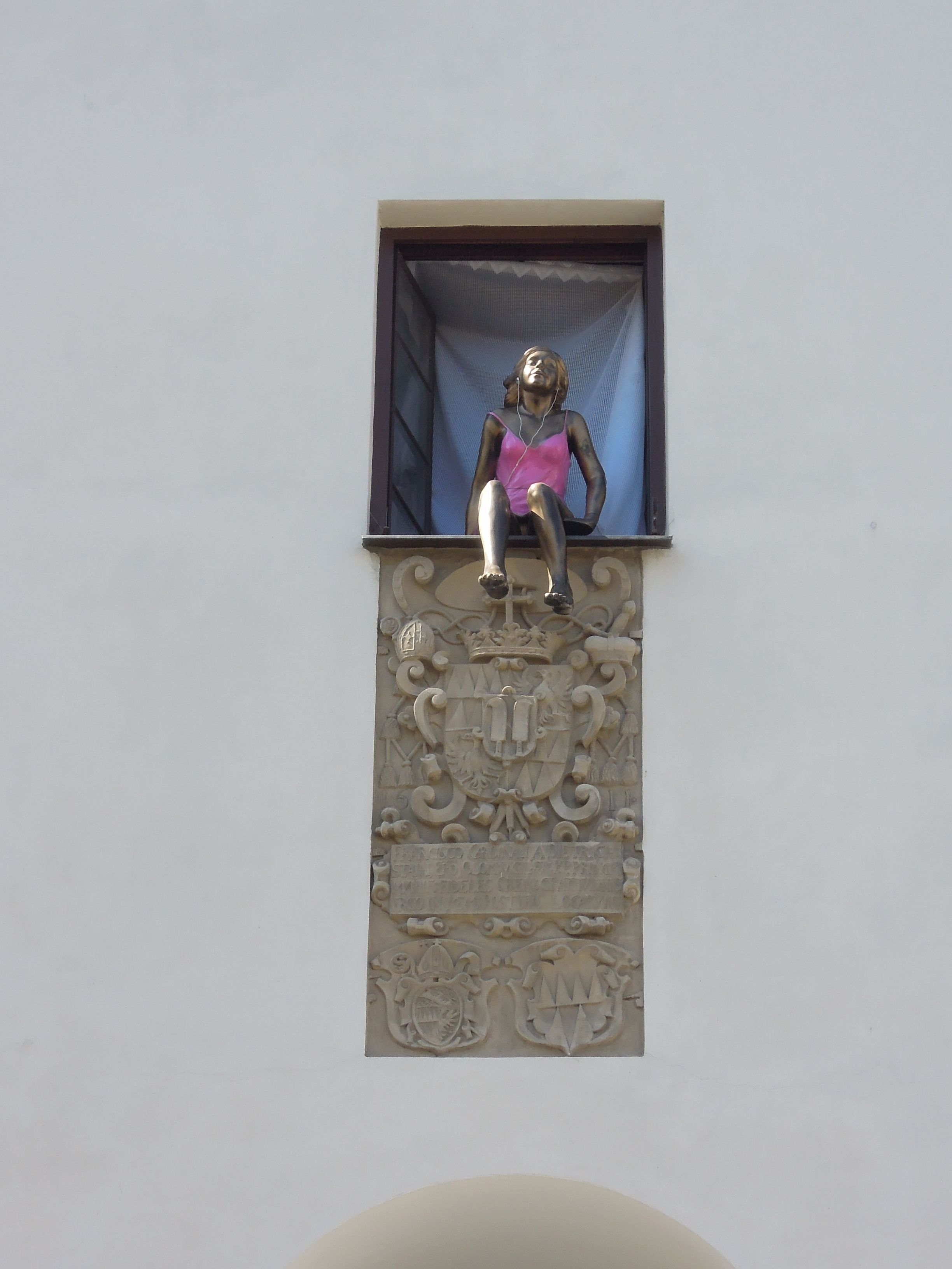 Town Hall in Kroměříž, Kroměříž District, Zlín Region, Czech Republic